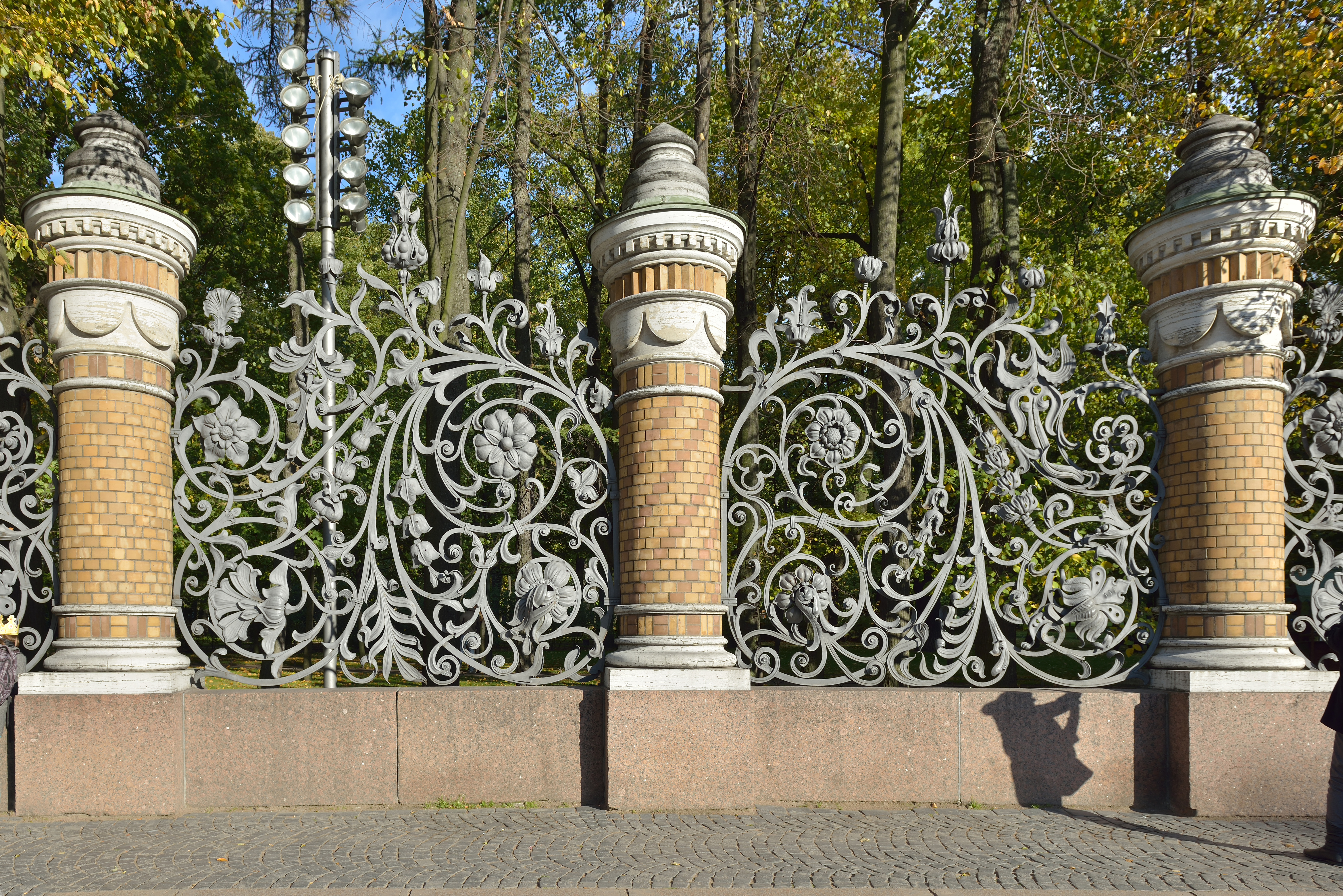 Detail of fence of the Church of the Savior on Blood in Saint Petersburg. Designed by Alfred Parland